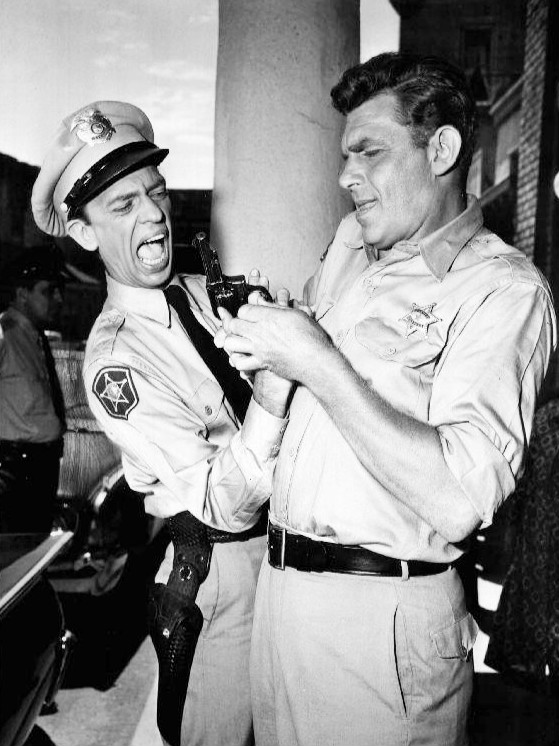 Photo from the television program The Andy Griffith Show. In this episode, Barney gets his gun stuck on his finger.